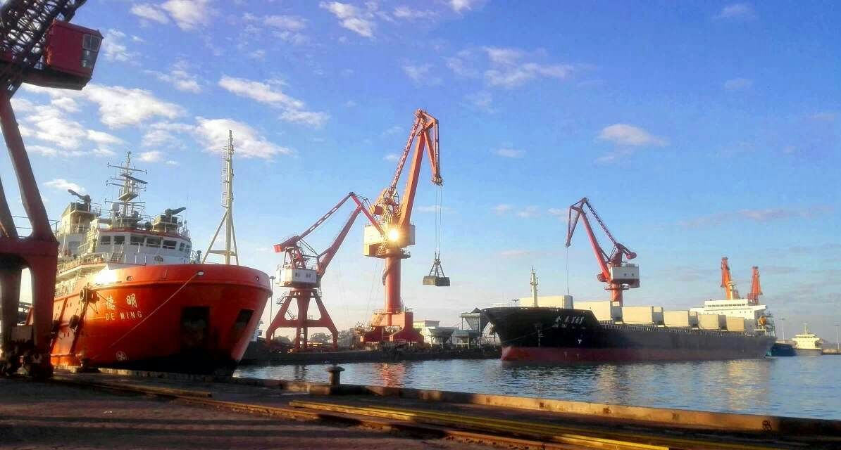 Basuo Port